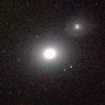 Messier object 060.